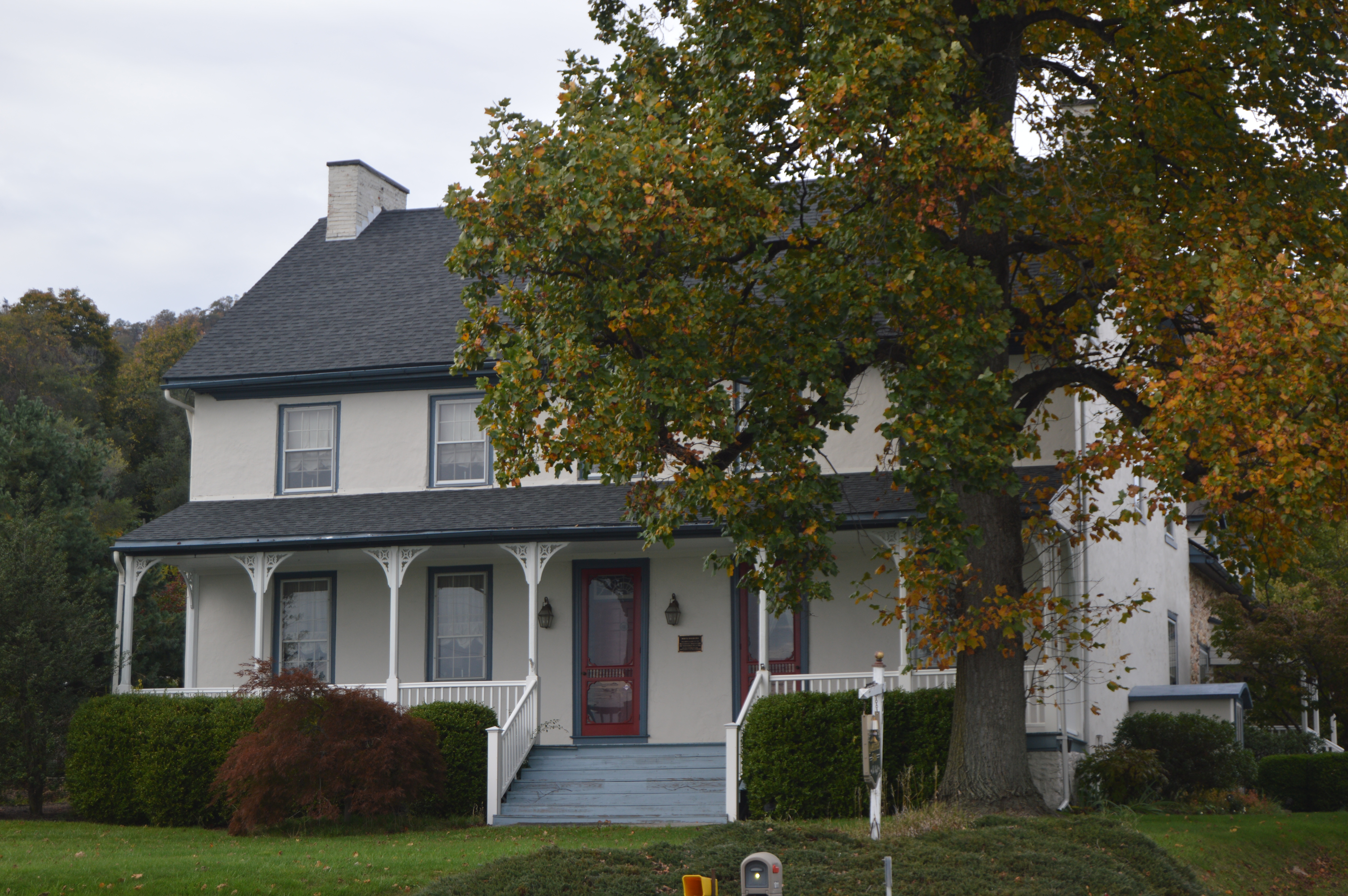 Front and eastern side of the White House Inn, located at 10111 Lincolnway (U.S. Route 30) west of Chambersburg in Peters Township, Franklin County, Pennsylvania, United States. Built in 1805, it is listed on the National Register of Historic Places.